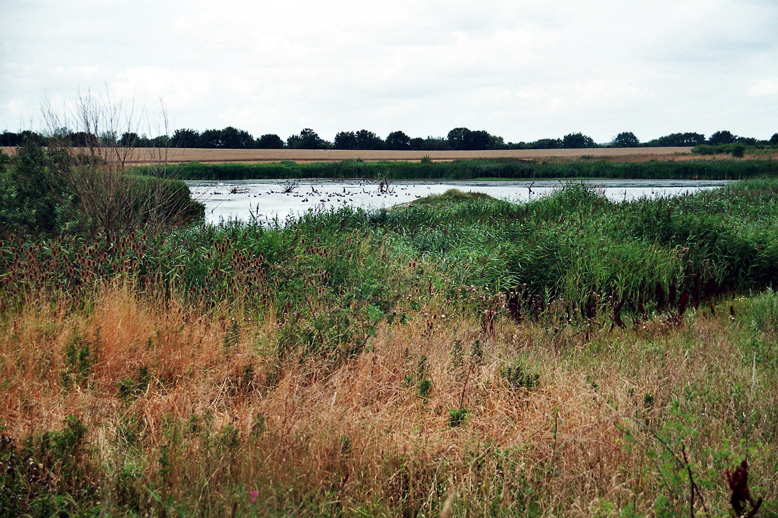 "Marzkamp" coastal lake in Schwartbuck, Kreis Plön, Schleswig-Holstein, Germany